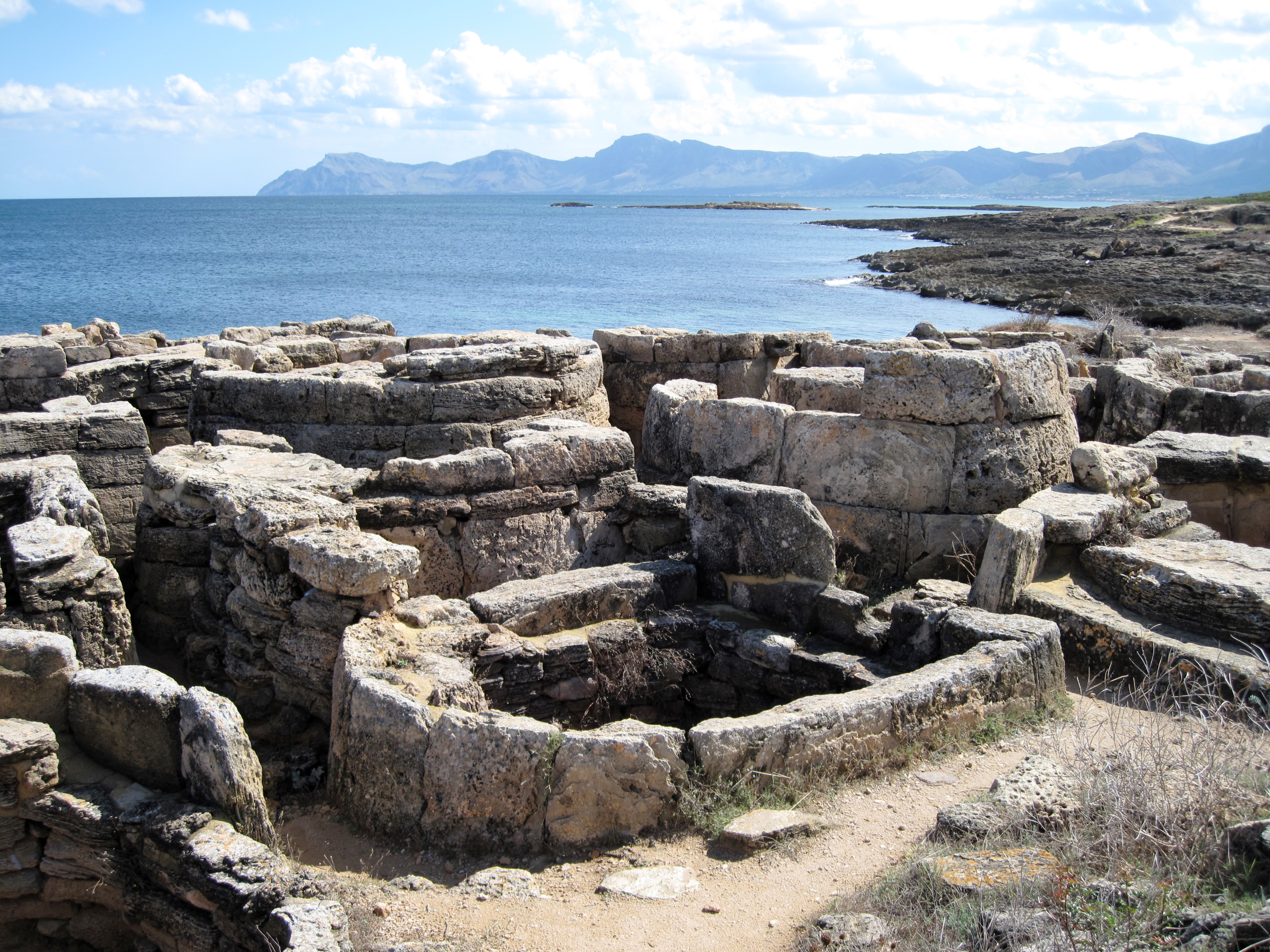 Necropolis of Son Real, Municipality of Santa Margalida, Majorca, Spain